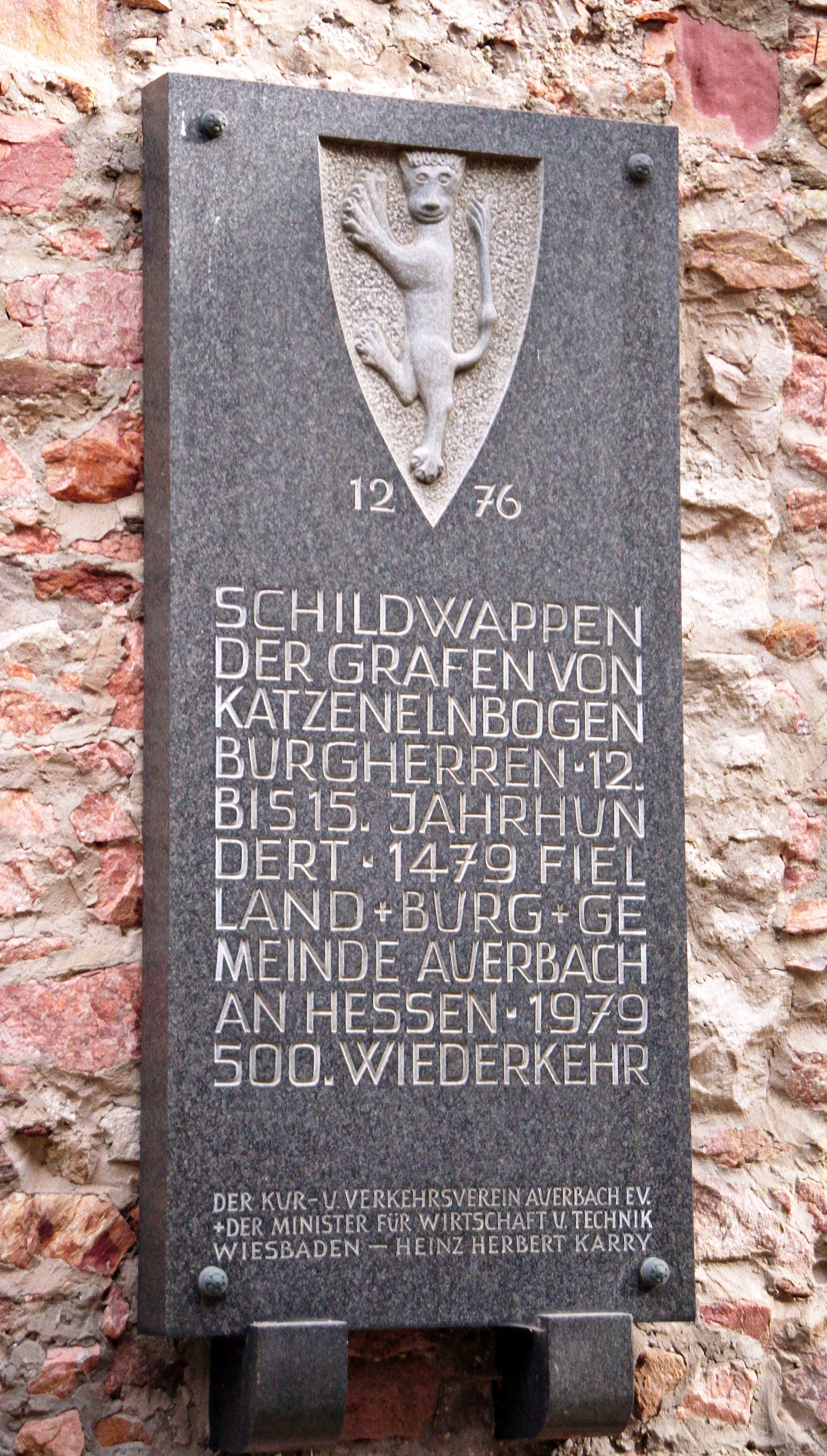 Auerbacher Schloss, Gedenktafel